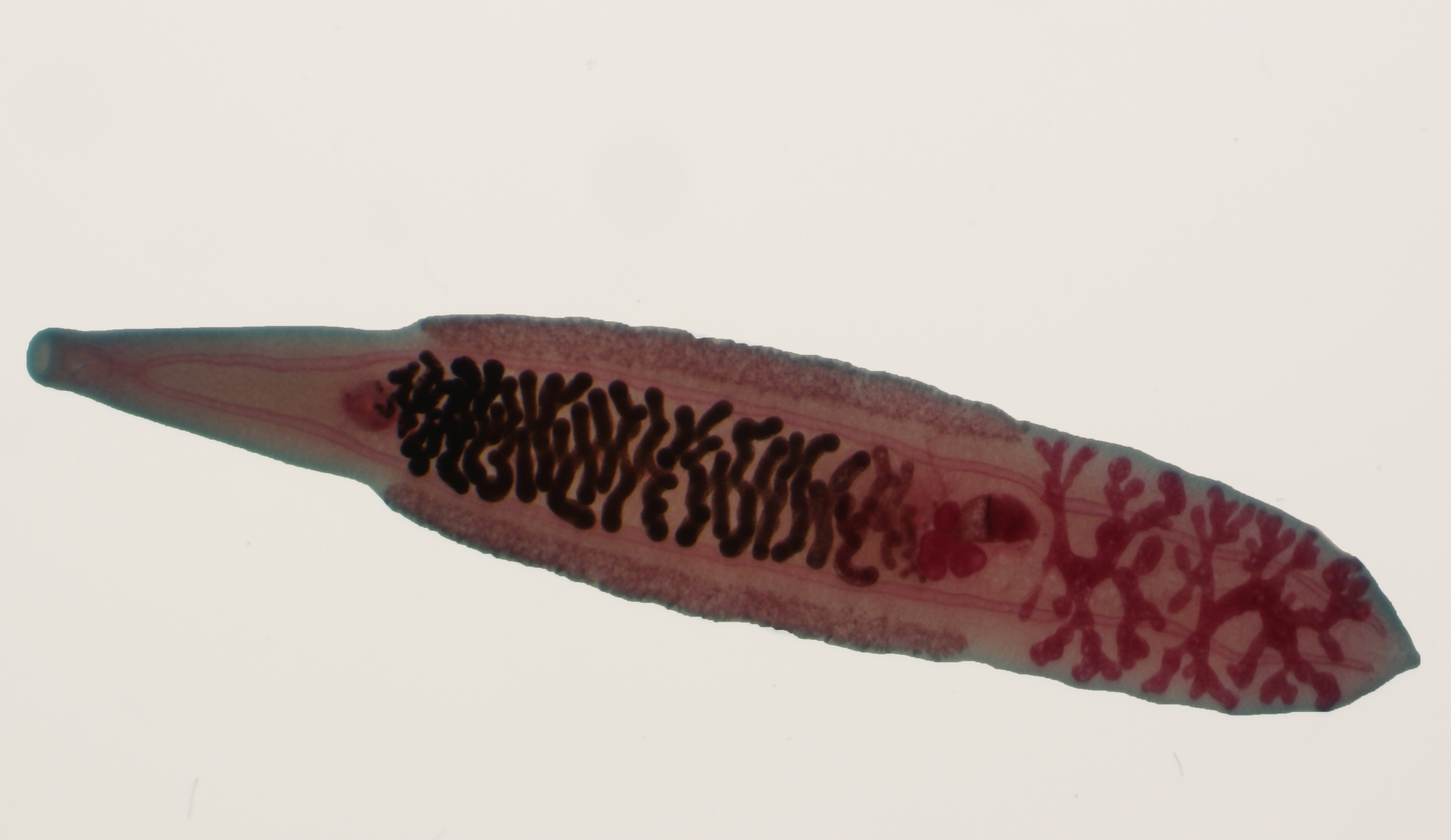 Adult specimen of Clonorchis sinensis (stained)